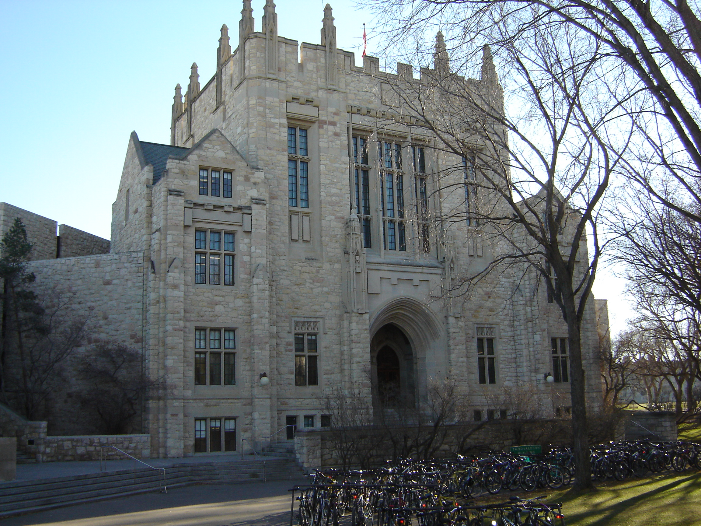 Thorvaldson building located on the main campus at the University of Saskatchewan, Saskatoon, Saskatchewan, Canada.